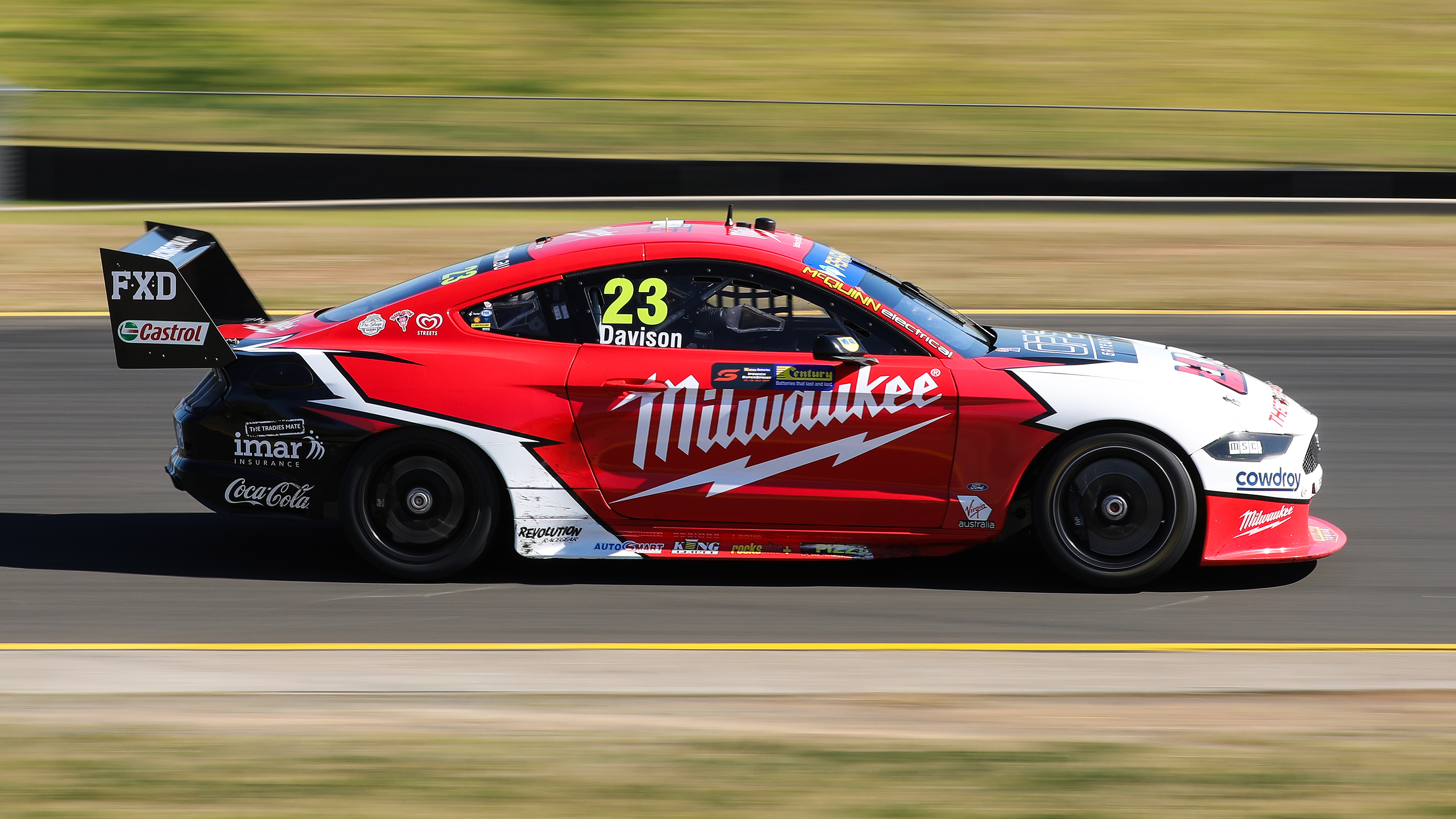 The Ford Mustang GT of Will Davison at a Supercars Ride Day in August 2019.